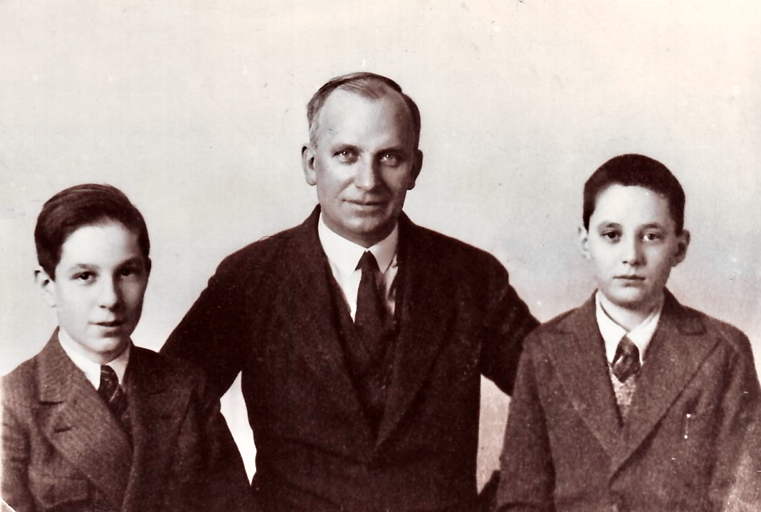 Algirdas Savickis (10 September 1917 in Copenhagen – 1 October 1943), left, was the eldest son of of Jurgis Savickis (1890–1952), center, a Lithuanian diplomat and writer, and Ida Trakiner-Savickienė (1894–1944), a dentist whose family was Jewish and originally from Saint Petersburg. Algirdas died in the ghetto of Kaunas (Kowno/Kaunen) after he was shot by a Lithuanian guard when he tried to protect his young wife Julija. On the right is his younger brother Augustinas (1919–2012) who survived since he was able to flee to Russia.